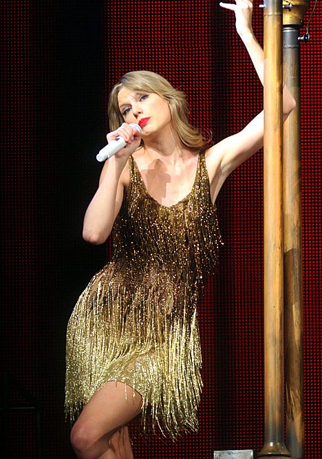 Taylor Swift - Speak Now Tour Hots Sydney, Australia 2012.